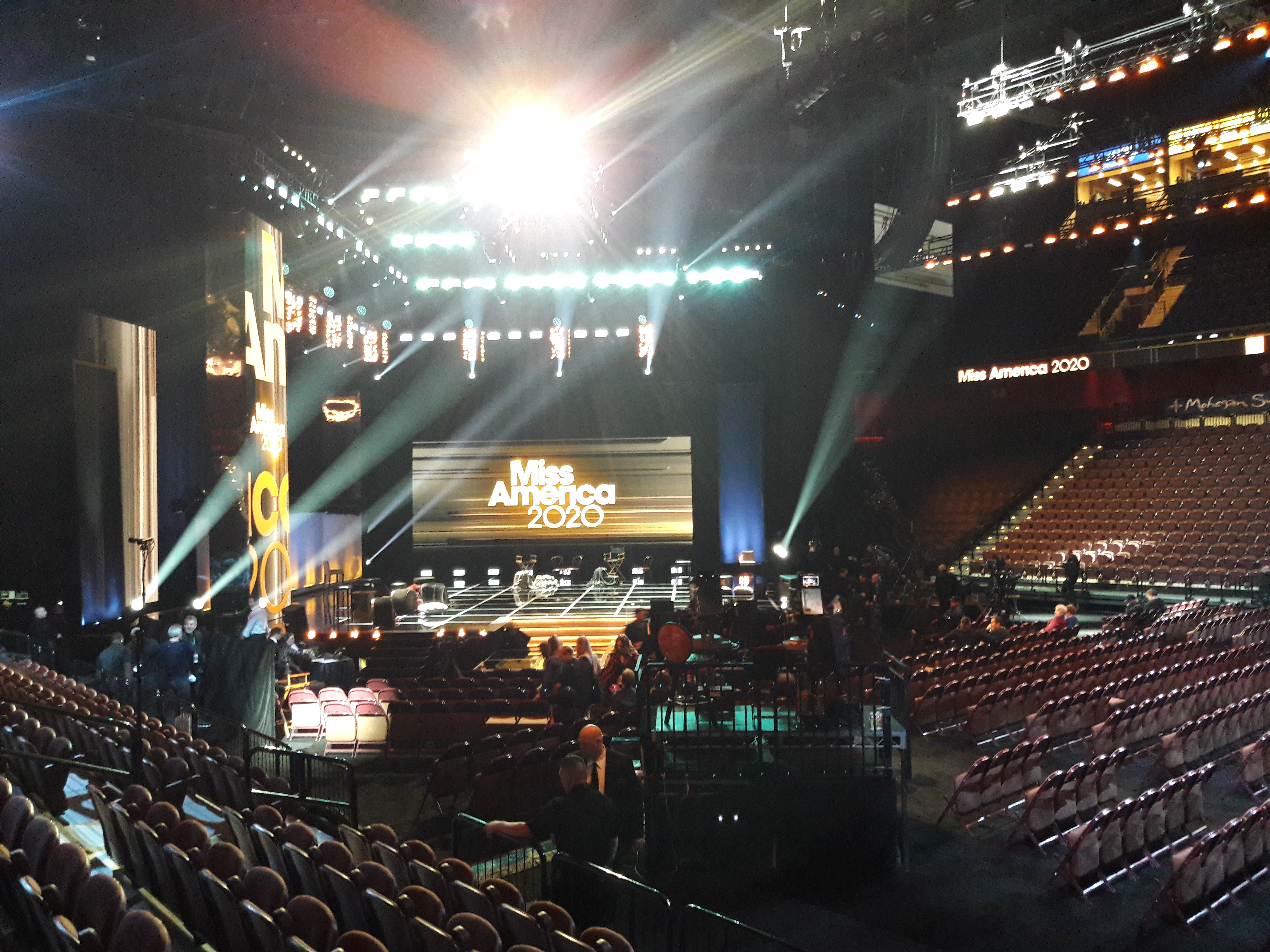 The Miss America 2020 stage in the Mohegan Sun Arena, Uncasville, Connecticut.